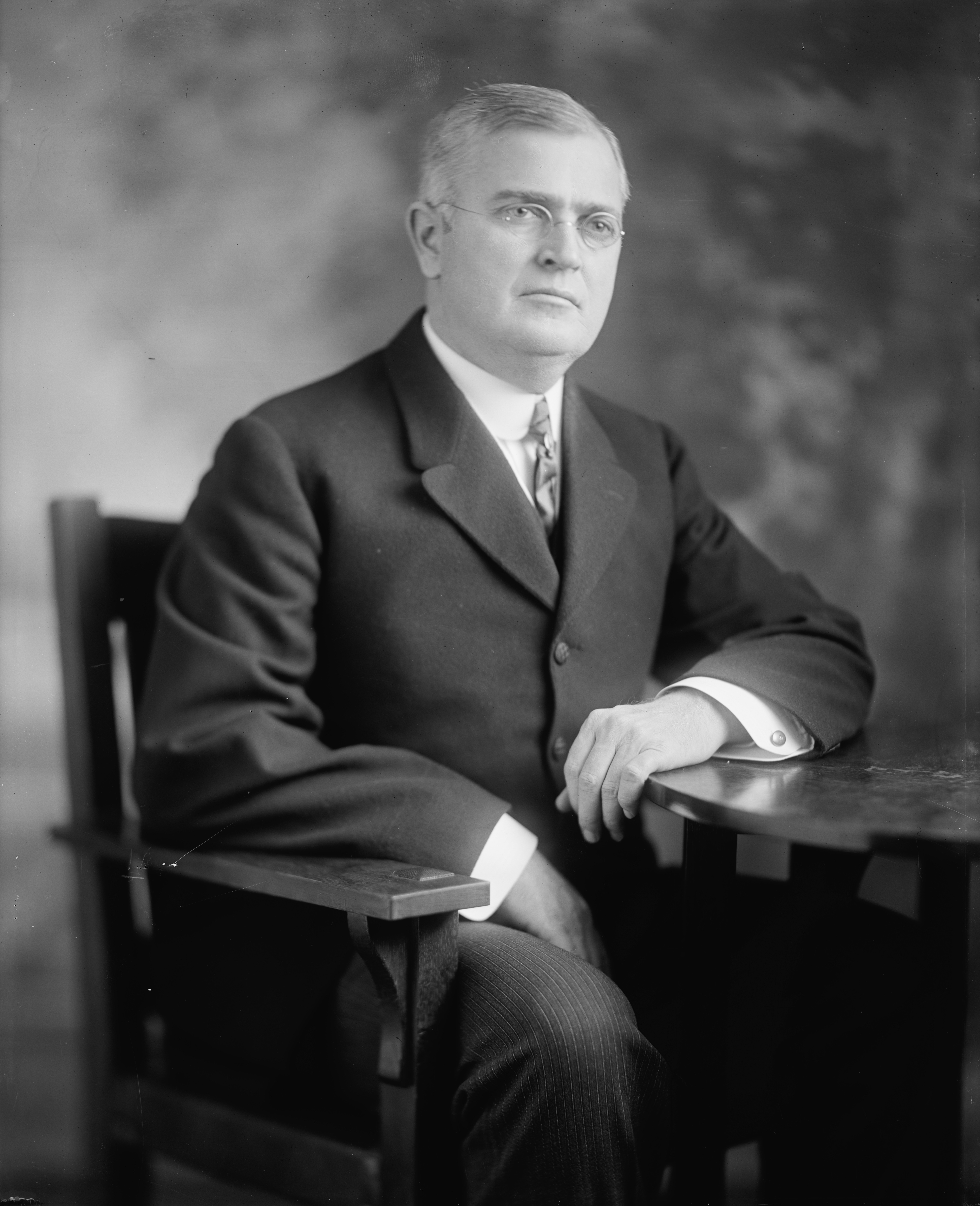 Title: O'HAIR, FRANK T. HONORABLE Abstract/medium: 1 negative : glass ; 8 x 10 in. or smaller